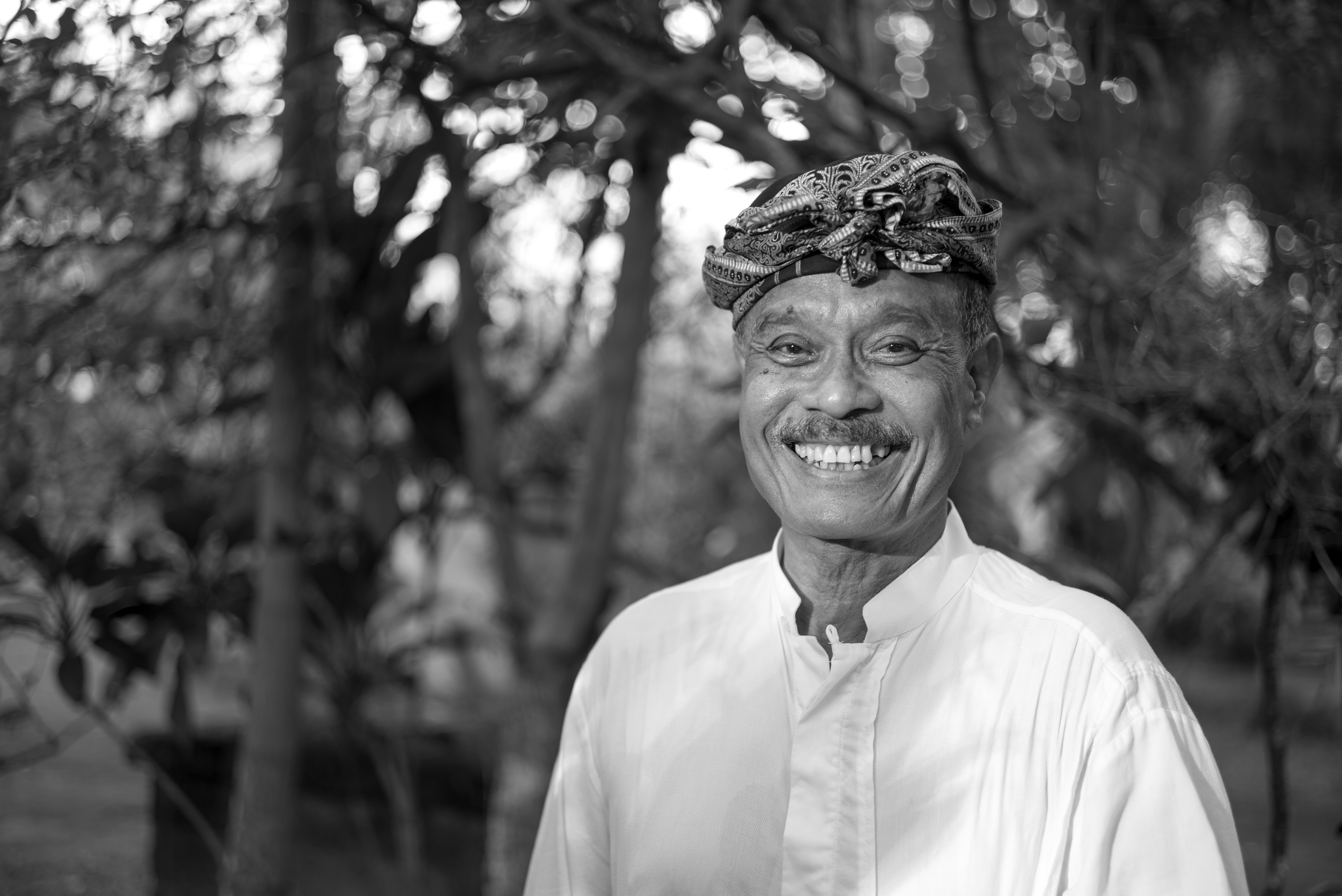 Museum founder & director, Agung Rai. Bali.